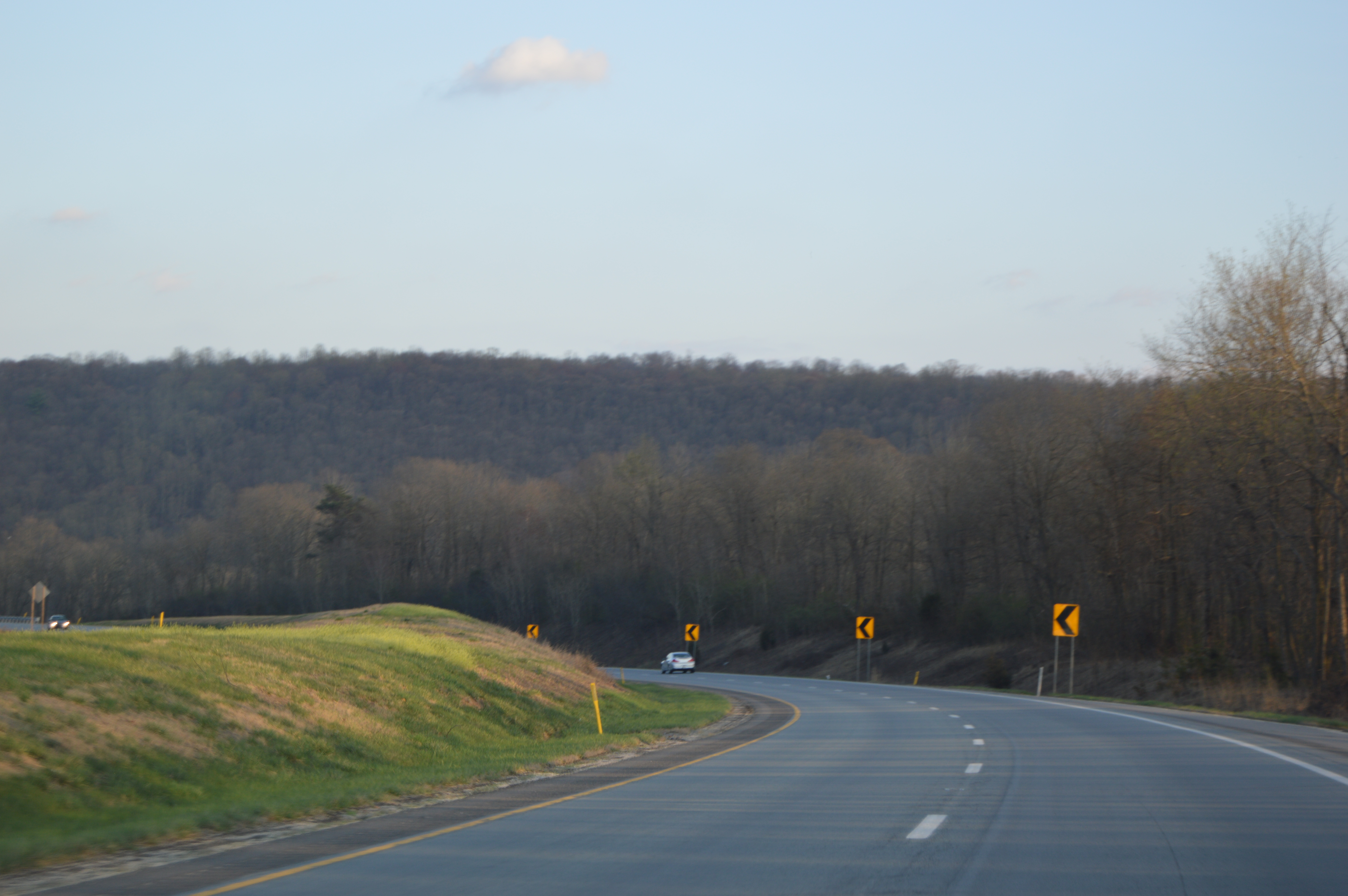 Hills above the Juniata River, seen from U.S. Routes 22/322, east of Newport in southeastern Howe Township, Perry County, Pennsylvania, United States.